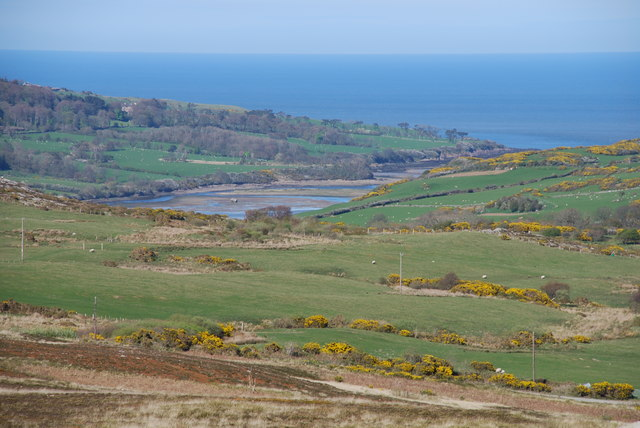 Traeth Dulas from Yr Arwydd